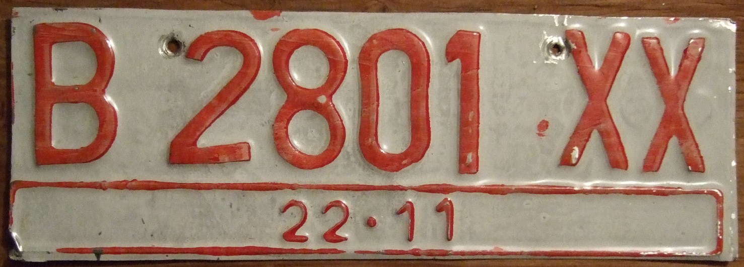 INDONESIA, JAVA ---TEMPORARY PLATE